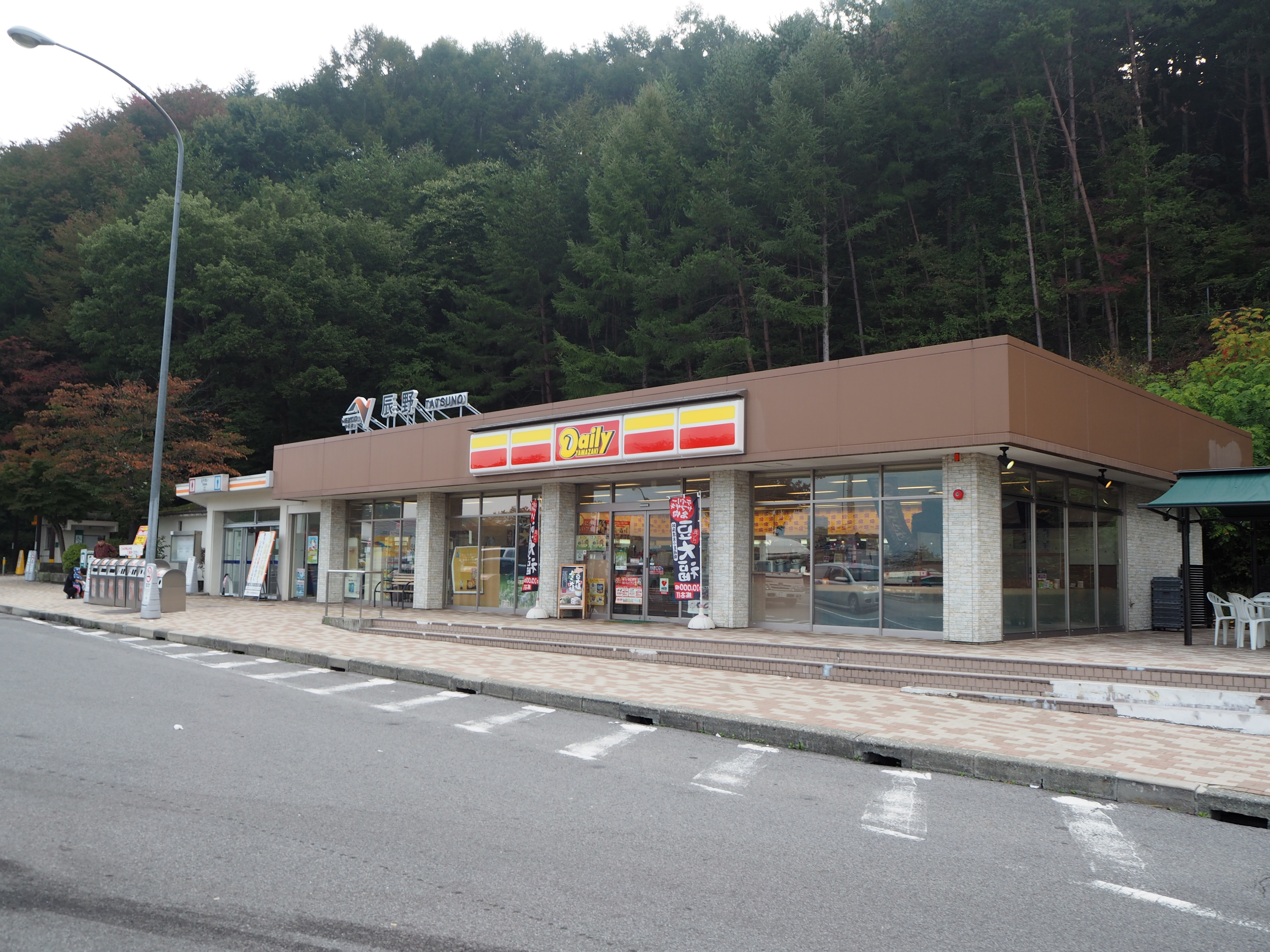 Tatsuno Parking Area